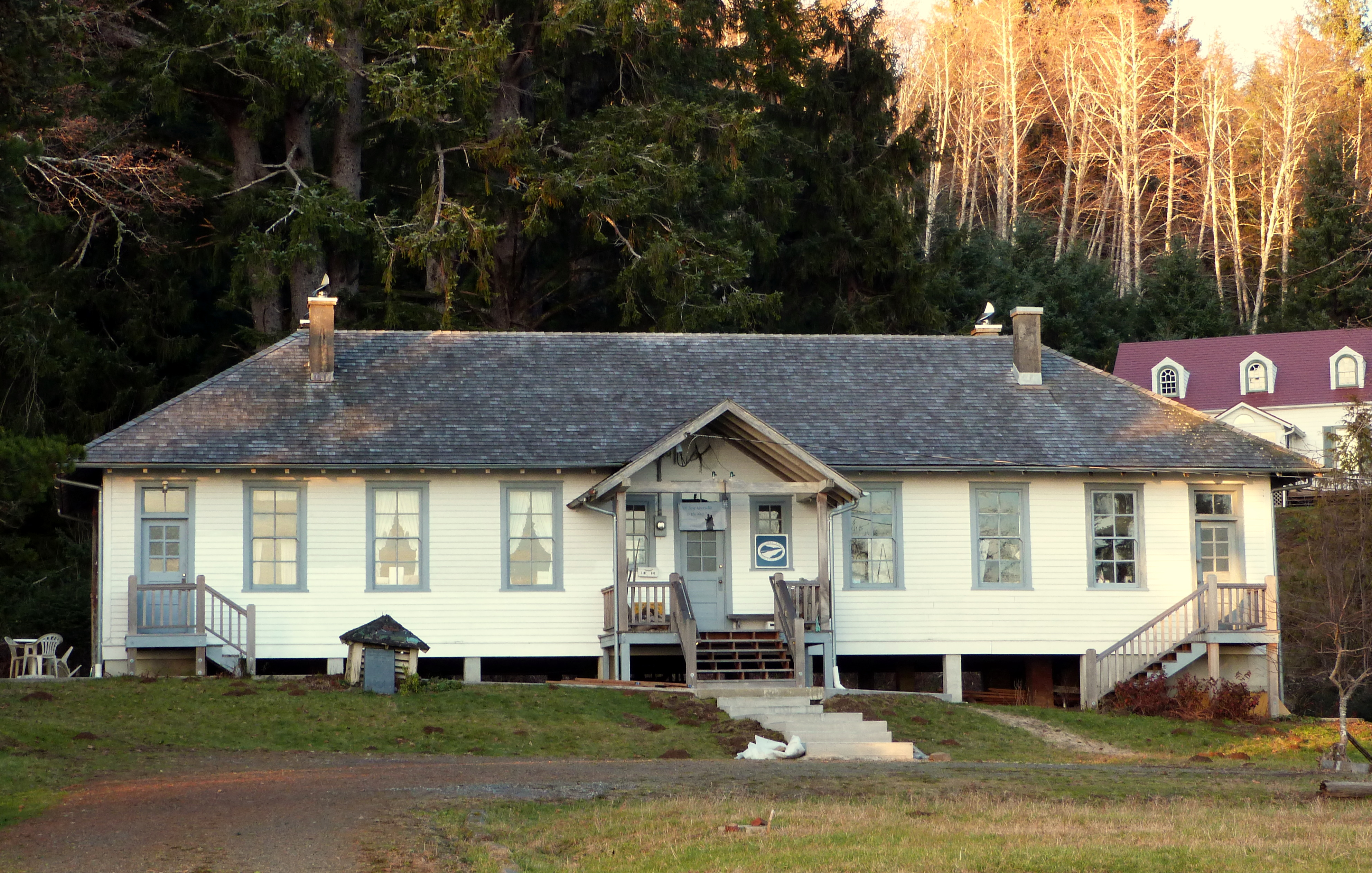 The historic Columbia River Quarantine Station (built 1899), located on Washington State Route 401 near Knappton, Washington, United States, is listed on the US National Register of Historic Places.